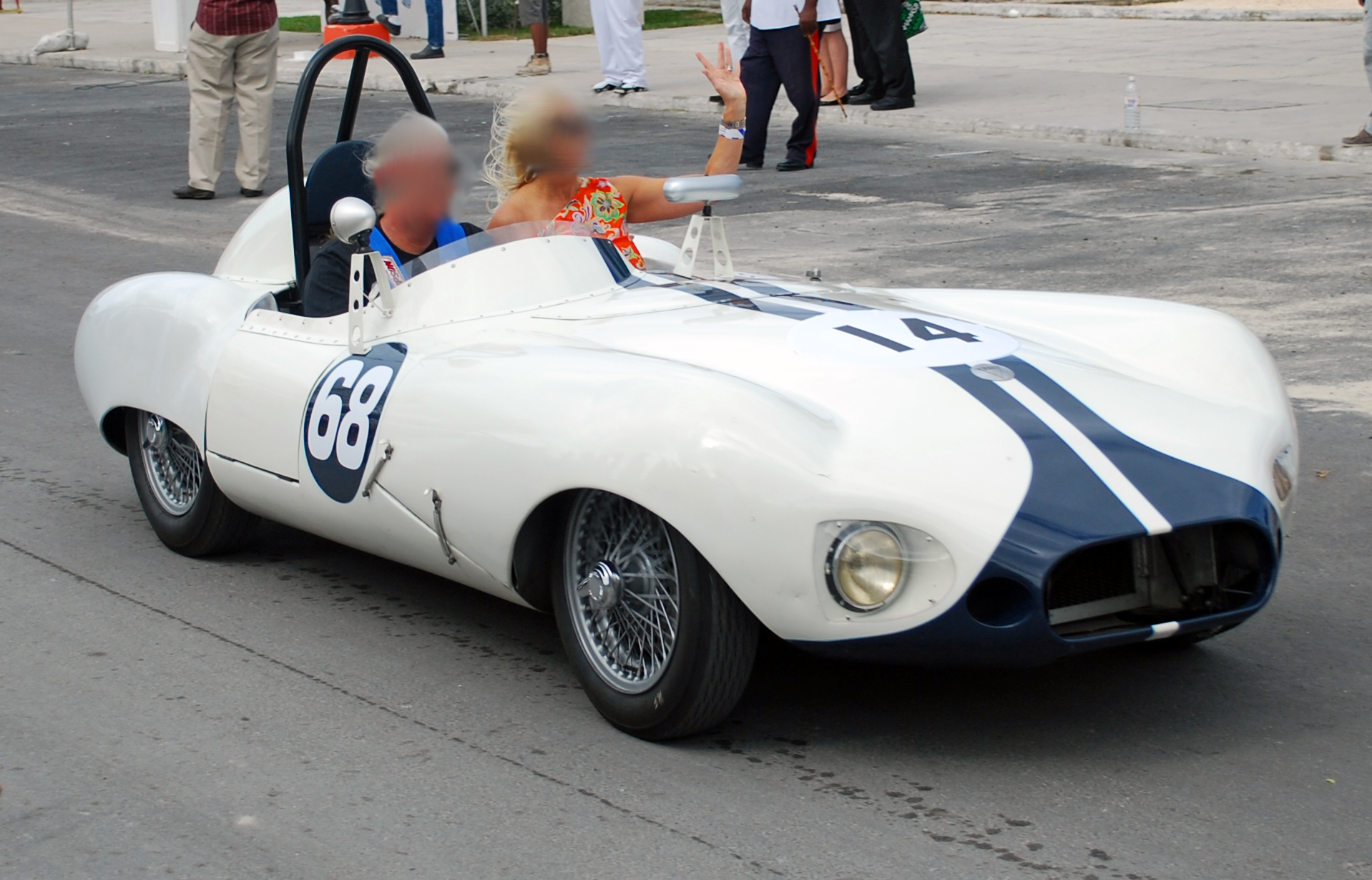 1957 Elva Mk IIa s/n 100/49 at Bahamas Speed Week, November 2011. This car, while technically a Mark II, has streamlined alloy bodywork much in the style of the later Mk III Elvas. 1100cc Coventry Climax engine.